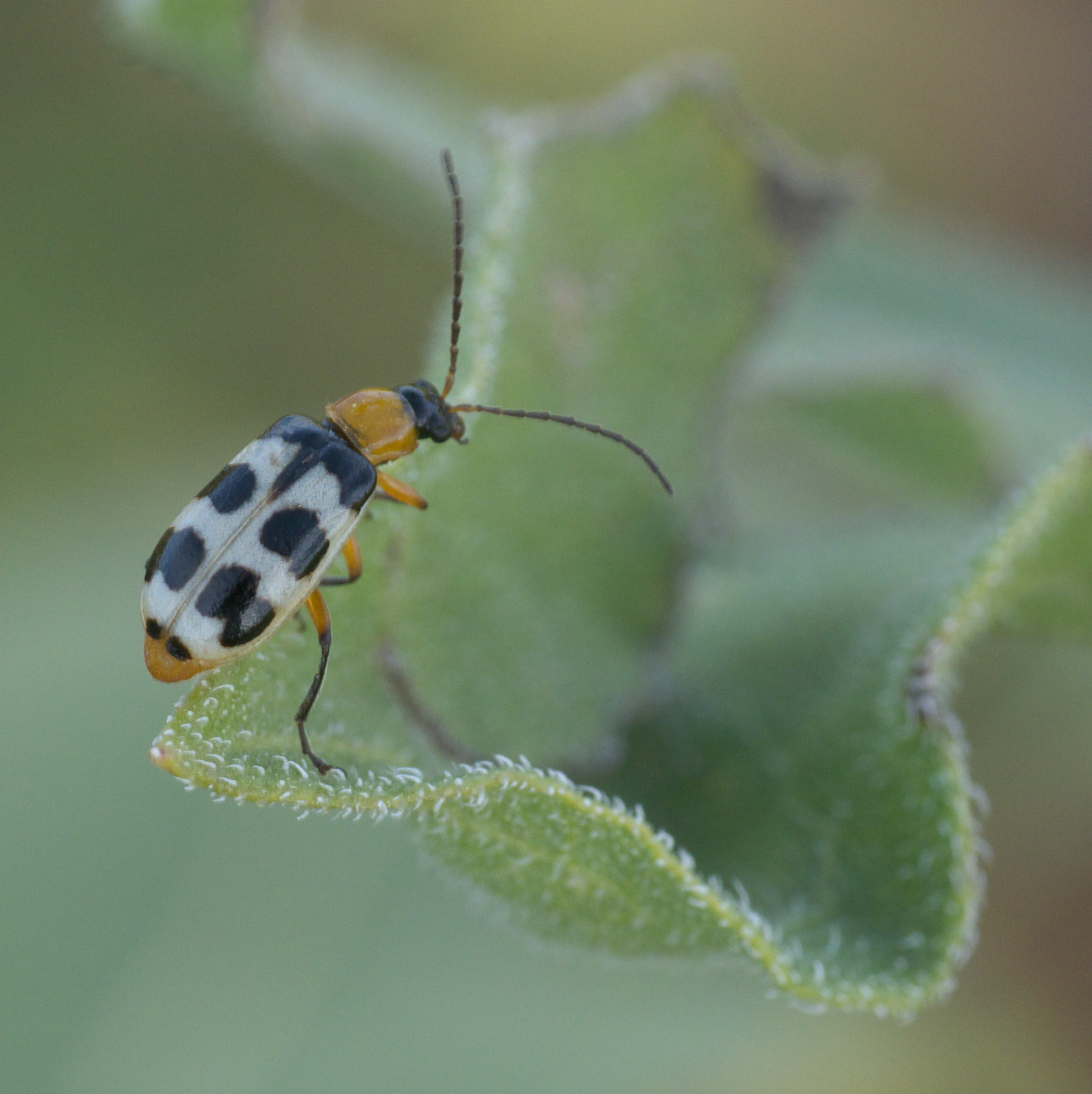 Paranapiacaba tricincta, Subfamily: Skeletonizing Leaf Beetles and Flea Beetles, ID Confidence: 98